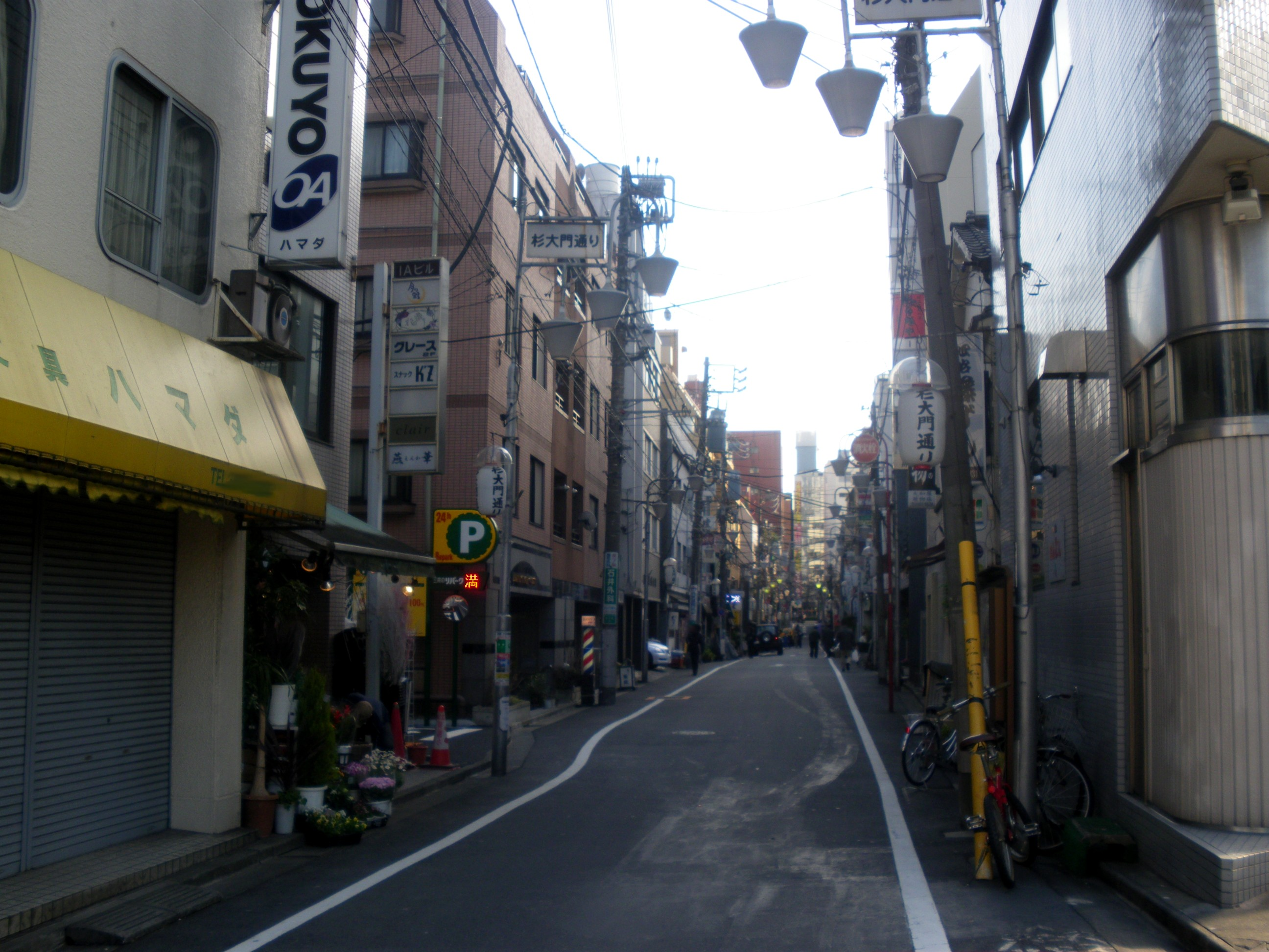 Sugidaimon Street(Arakicho,Shinjuku,Tokyo)